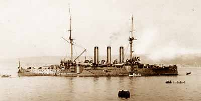 1937 Japan navy flagship in Shanghai. 上海沖の海防艦「出雲」(1937年撮影)：日本海軍の第3艦隊(1937年10月以降は支那方面艦隊)旗艦で，排水量1万トン、主砲は20.3cm砲 連装２基４門の旧式艦。上海の日本人居留民保護を目的に，上海の中国軍を砲撃した。